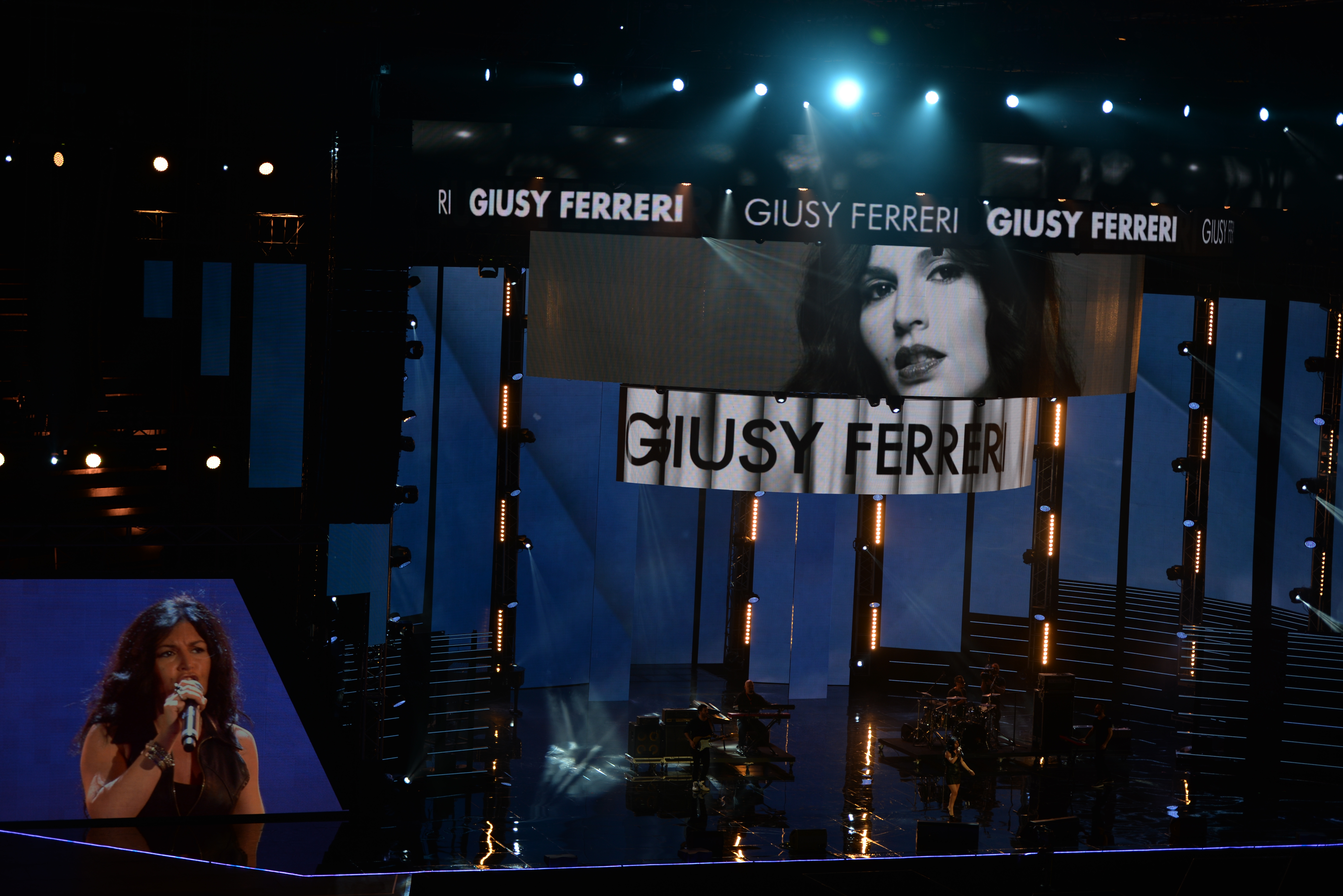 Giusy Ferreri during the Wind Music Awards 2016 ceremony at Verona Arena